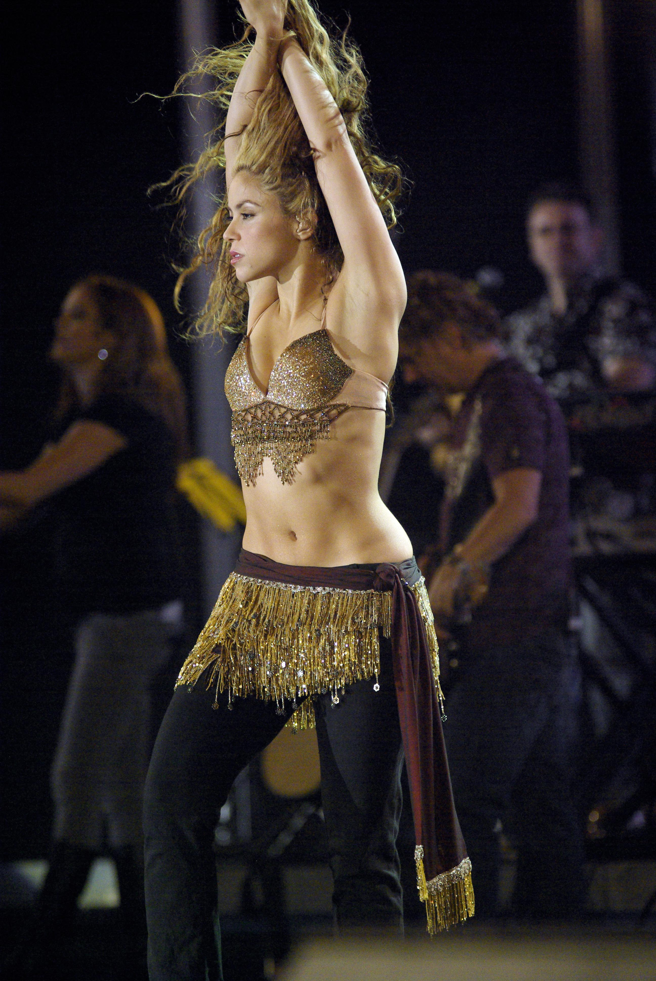 Shakira at the Rock in Rio concert in 2008.